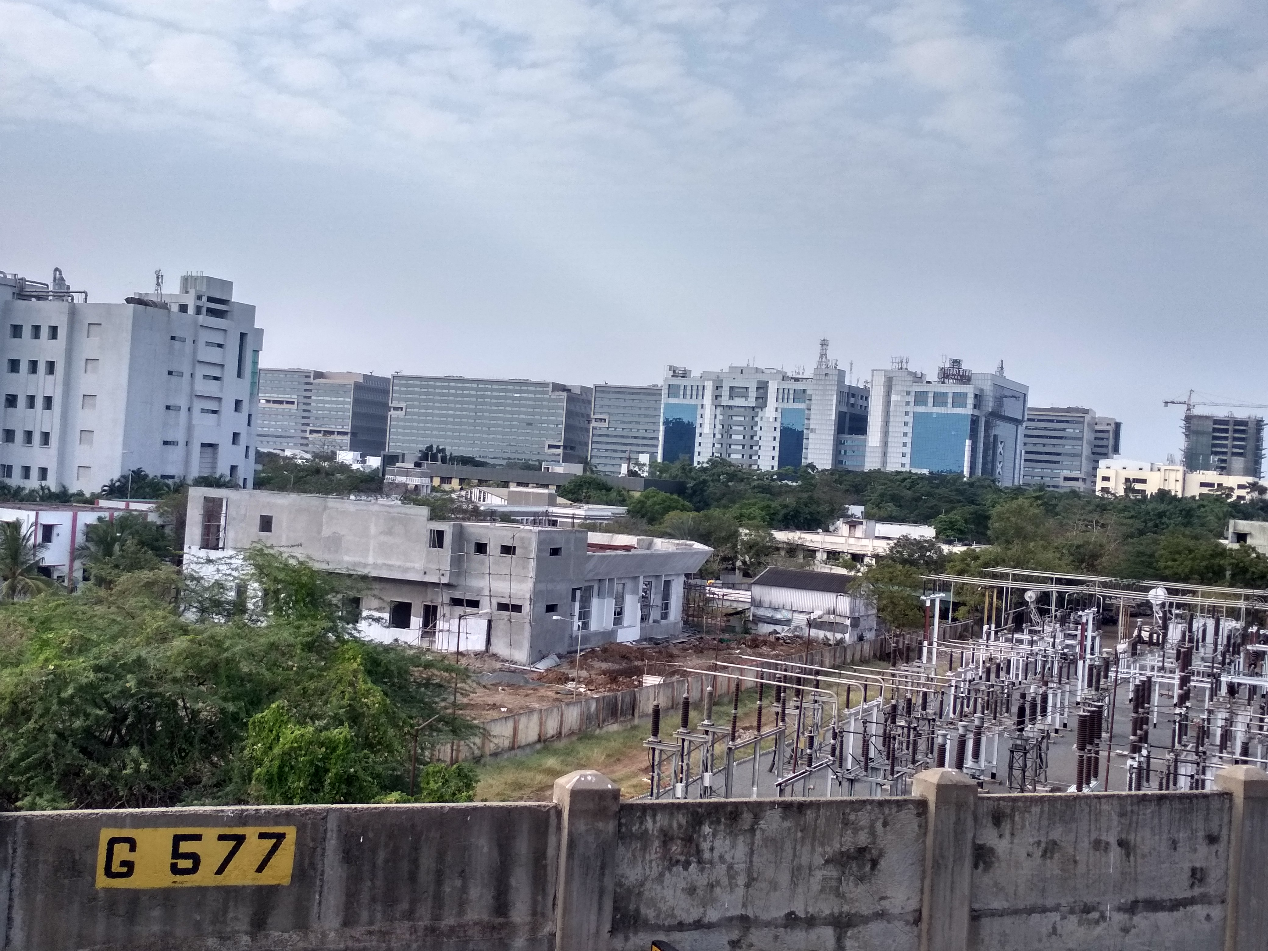 view of Tidal Park Chennai from Tower.